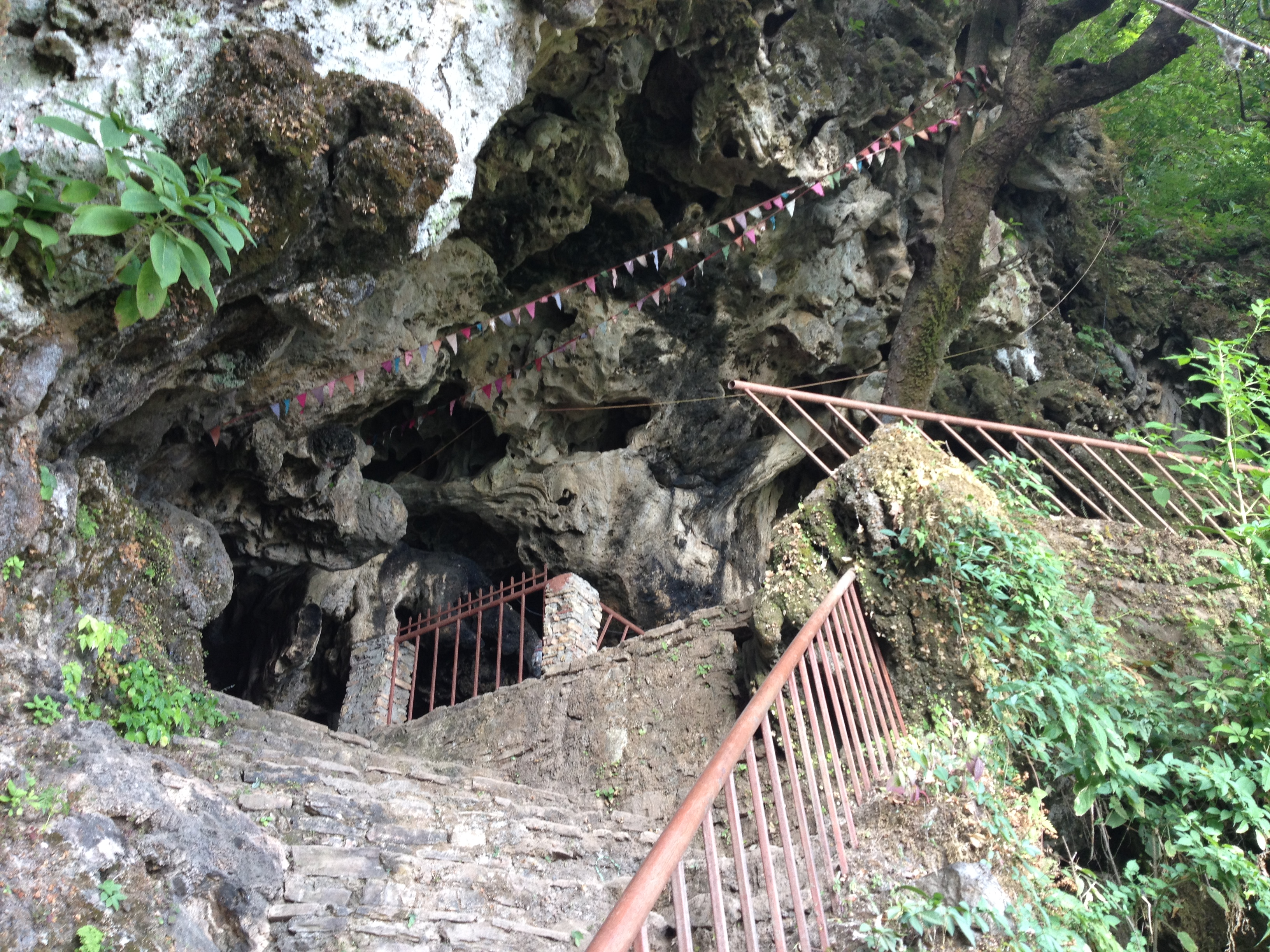 Chamere Gufa(cave) is located in Dang district of Nepal.